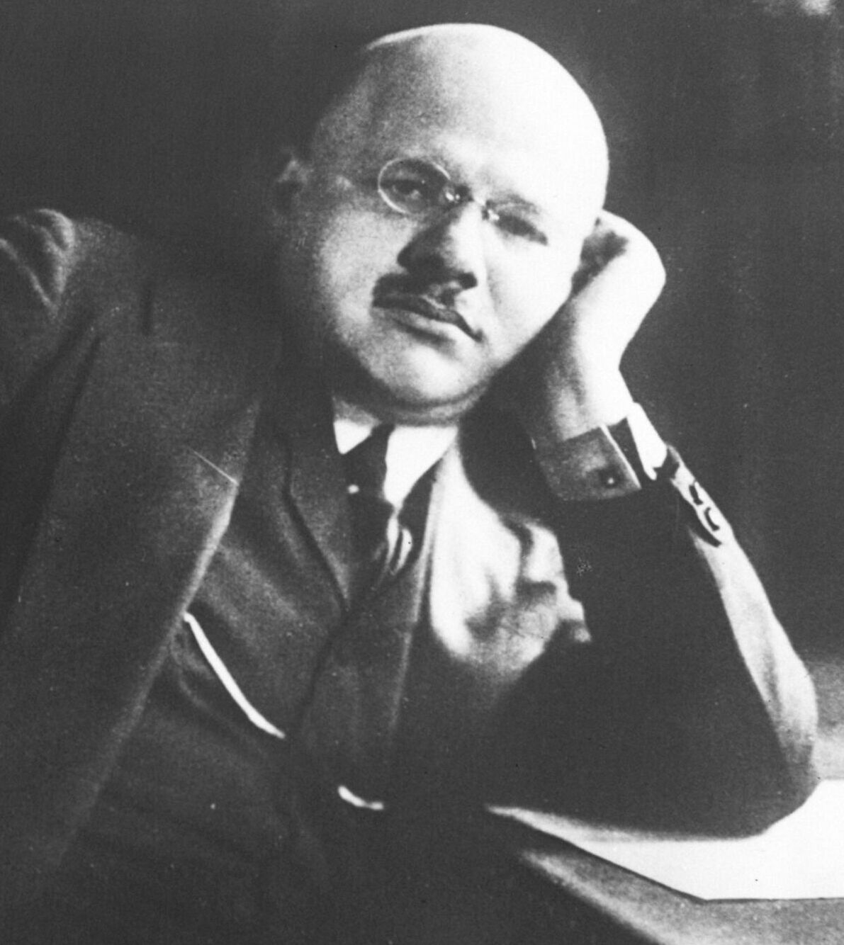 Composer Leo Fall (1873-1925) captured by the Russians when serving as an Austrian officer in 1915.